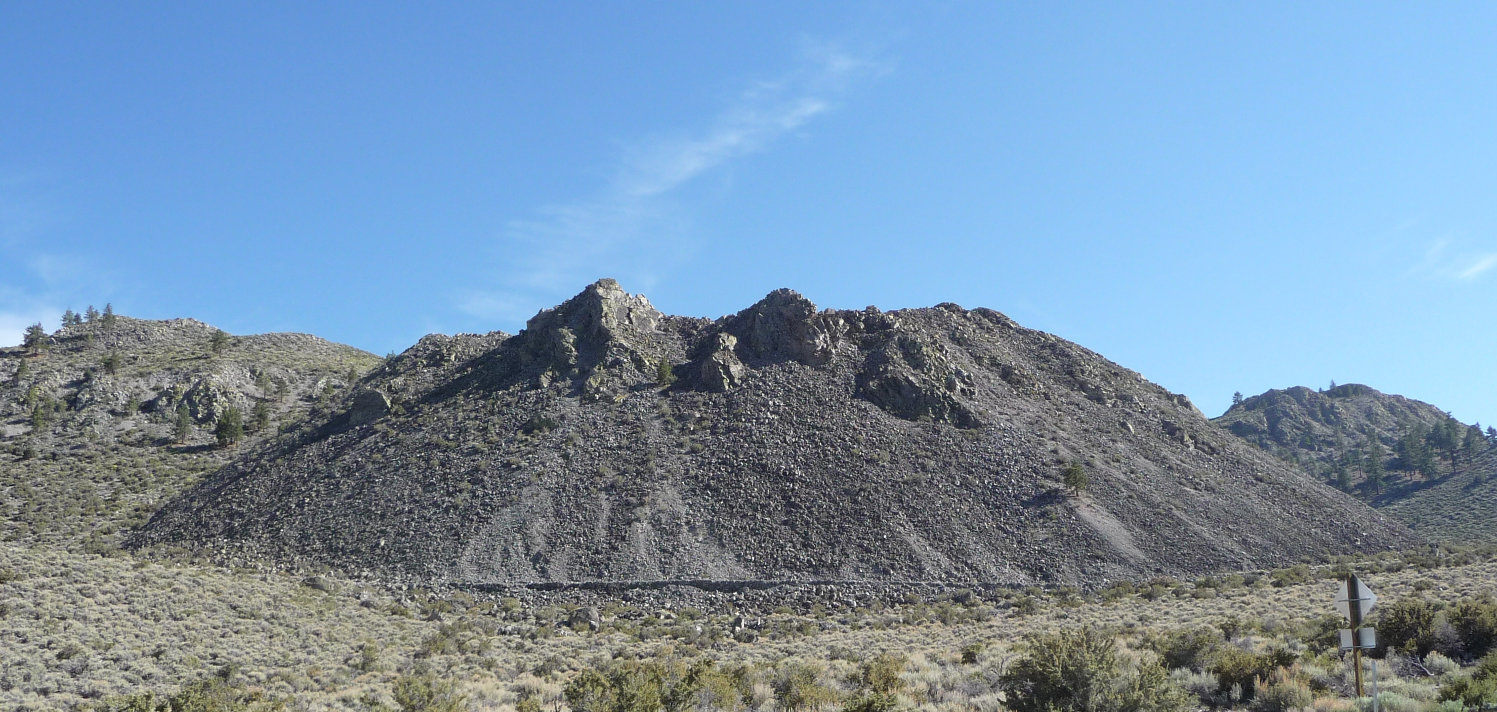 Mono Craters - Northwest Coulee from CA 120